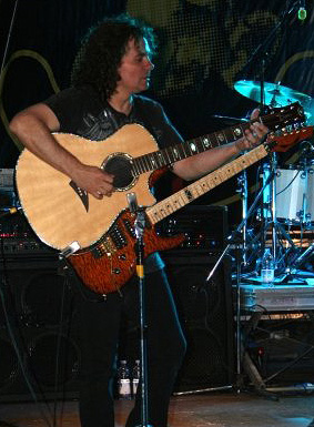 Vinnie Moore durind a concert in Cercemaggiore, Italy